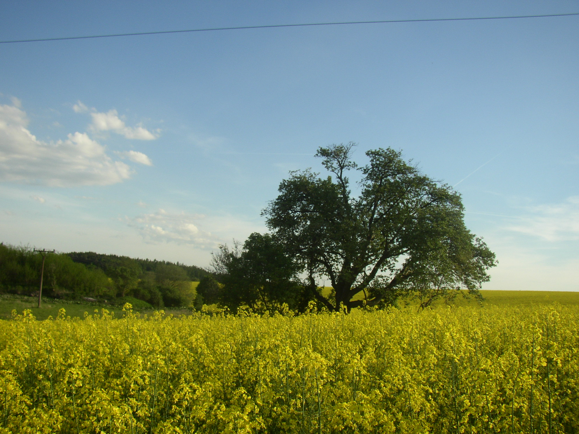 Muk „Na kocourku“ protected example of Common Whitebeam (Sorbus aria) growing solitary in a field SSE of village of Kyšice, Kladno District, Central Bohemian Region, Czech Republic.